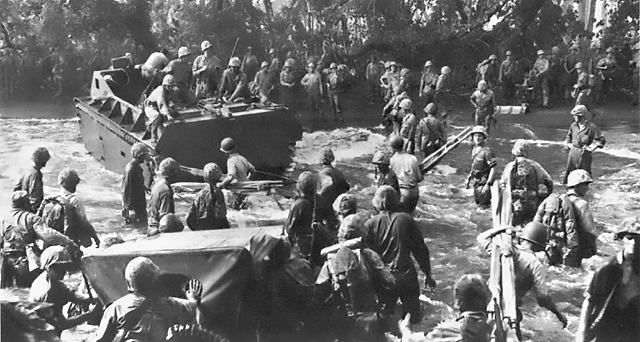 Moving off the ramp of a Coast Guard-manned landing craft, Marines move ashore on D-Day at Cape Gloucester - Operation Dexterity